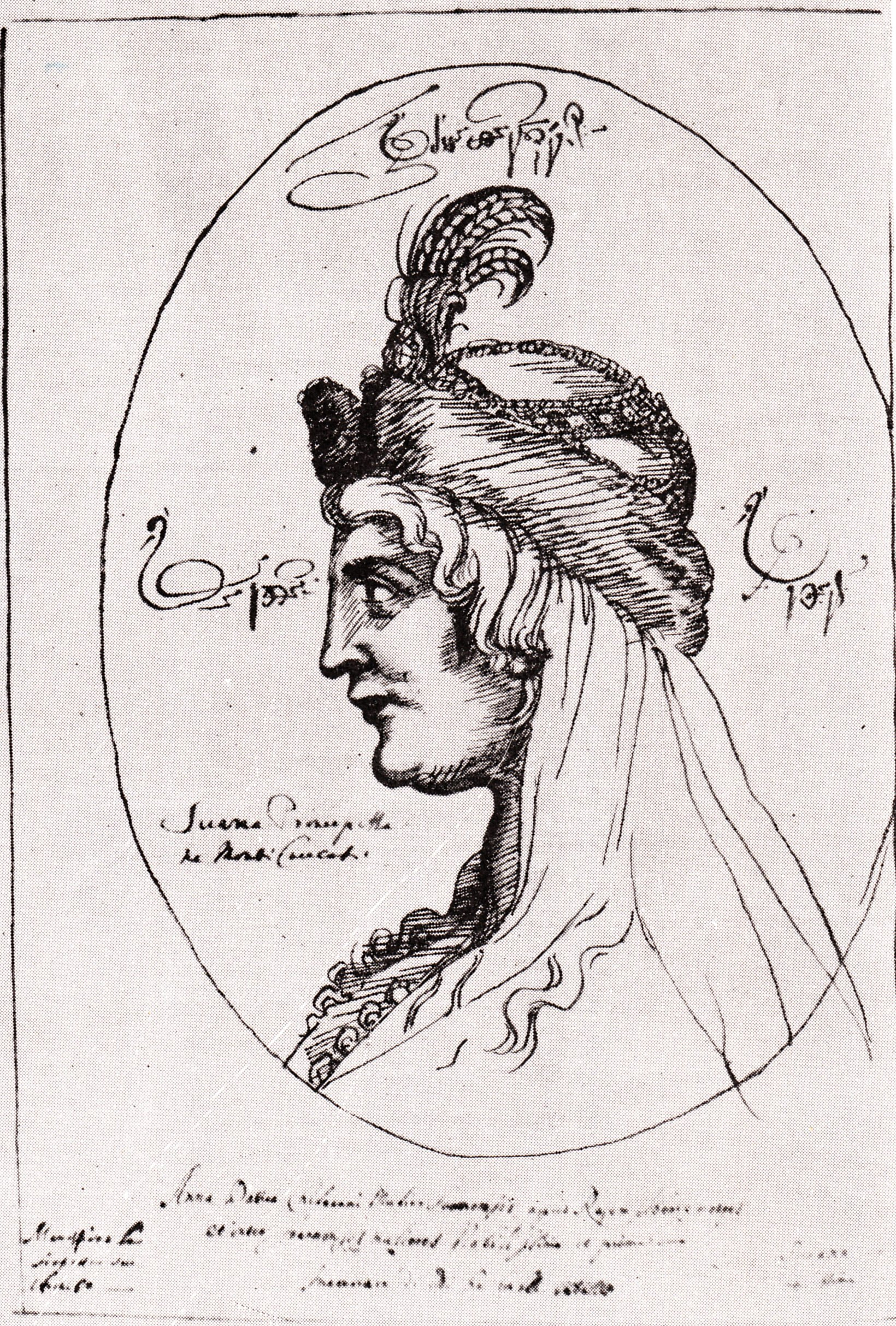 suprguga Prince Date Gelovani Anna. XVII в. XVII century. Album sketches Don Cristoforo De Castelli.